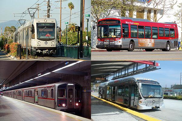 An example of the different types of services Metro provides. From top-left clockwise: light rail, bus, bus rapid transit, and rapid transit (subway).